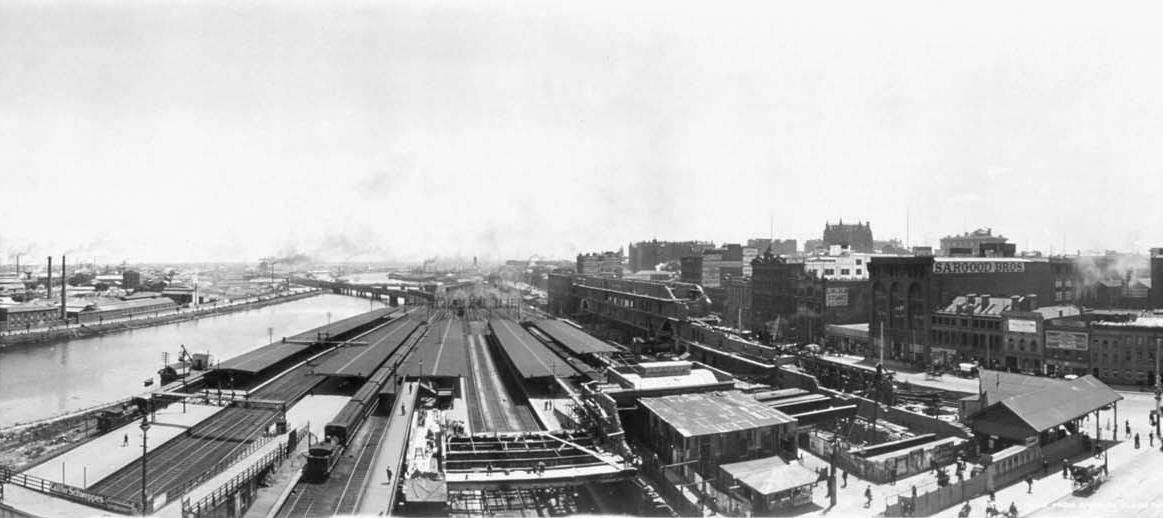 A cropped panoramic view of Flinders Street Station in 1908 during construction of the current station building. Can be used on Wikipedia under Australian Government Crown Copyright laws. The image has been cropped from the original to show the subject of the image more clearly.